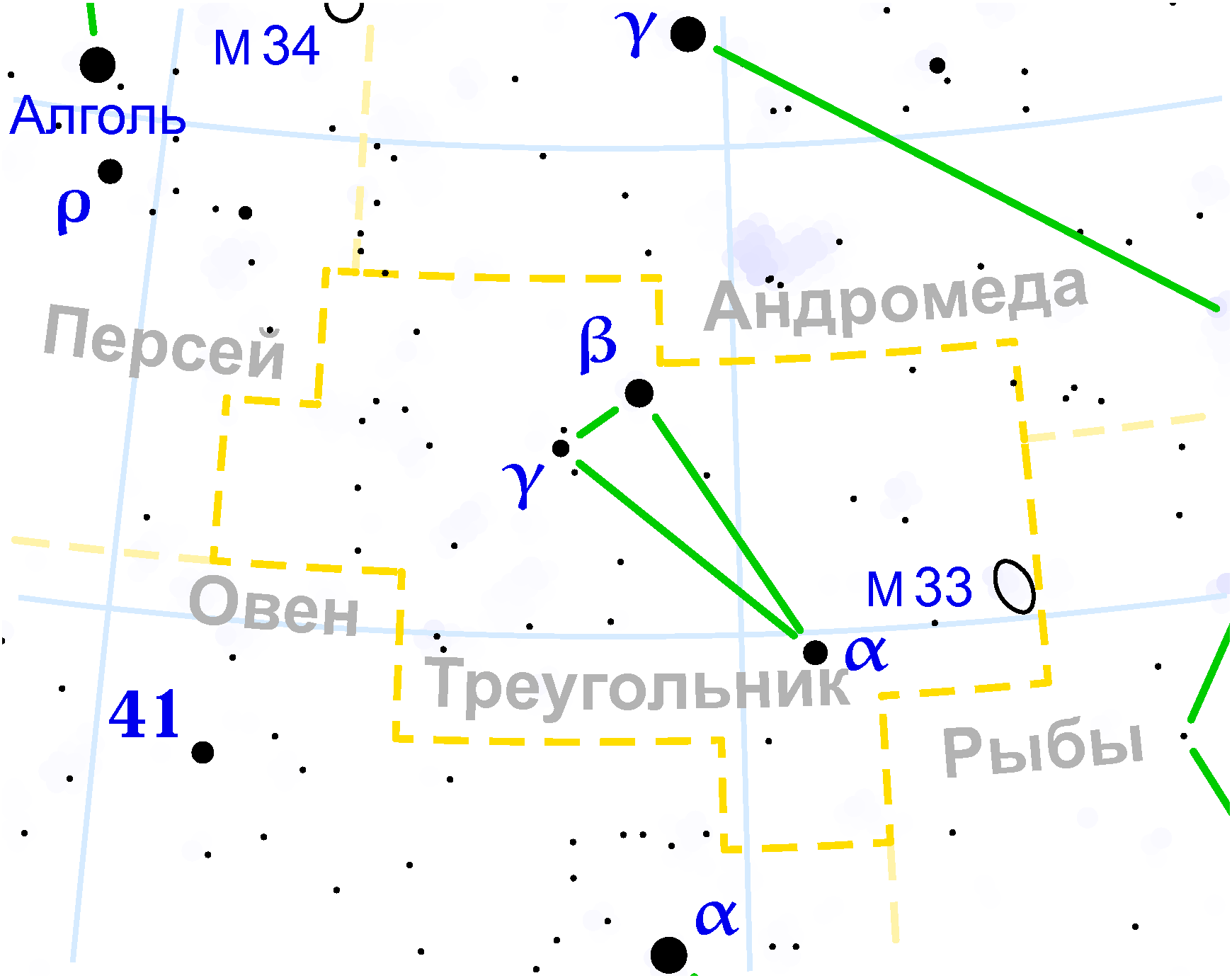 Triangulum constellation map in Russian